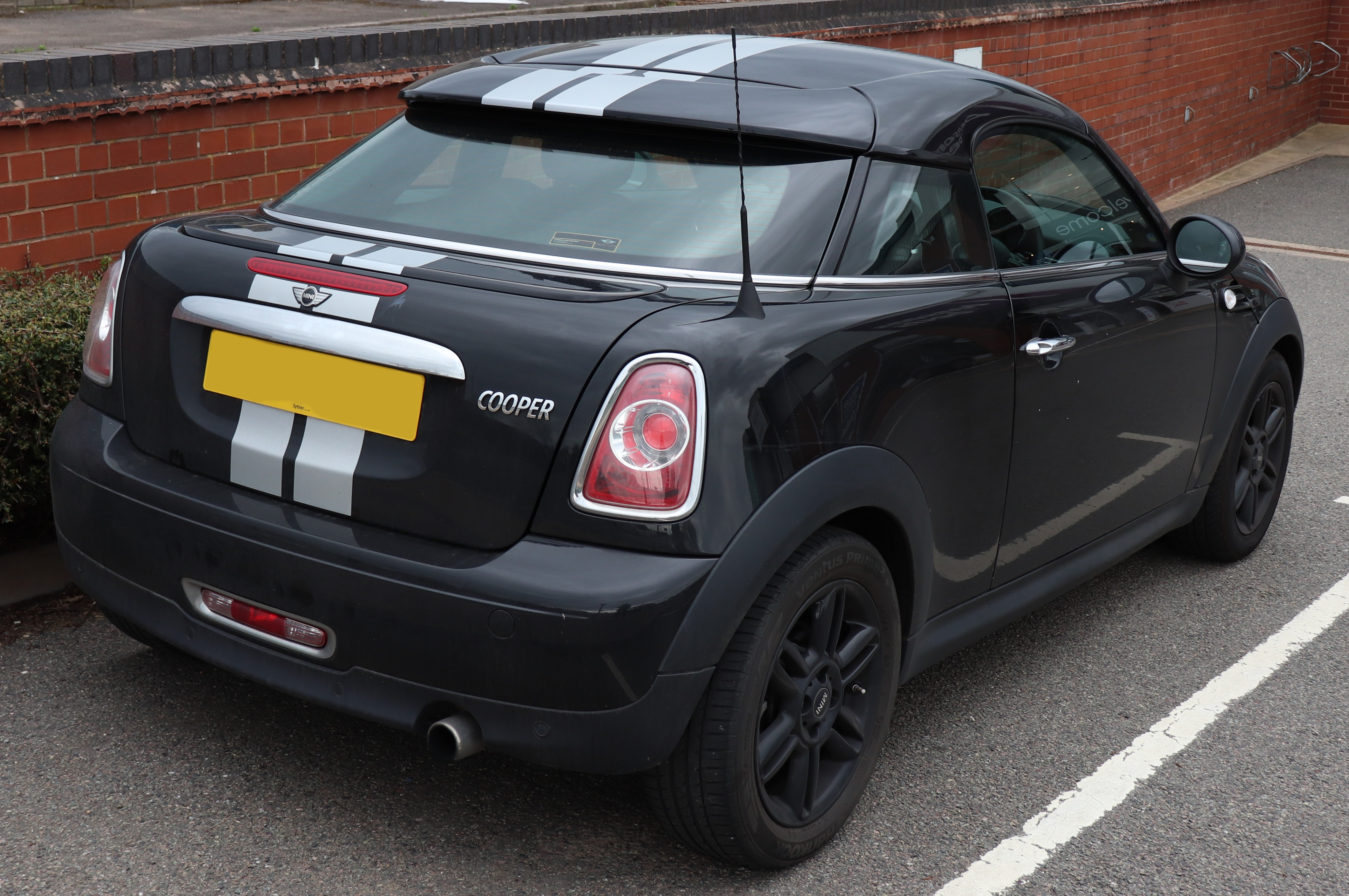 2015 Mini Cooper Convertible 1.6 Rear Taken in Leamington Spa